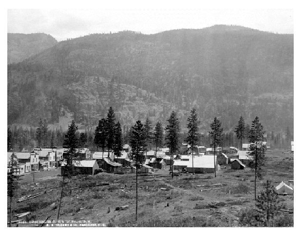 Photographer:Unknown Photo taken:1929 Source:BC Archives #D-06795[1]